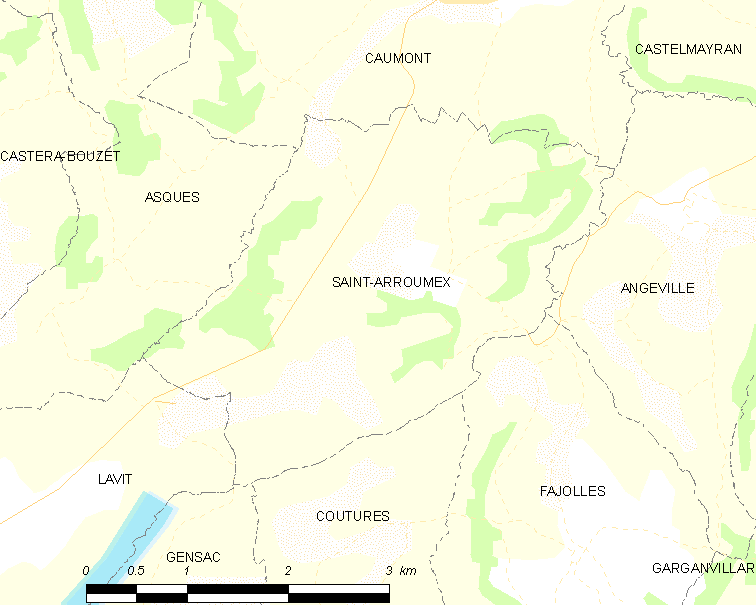 Map of French municipality Saint-Arroumex